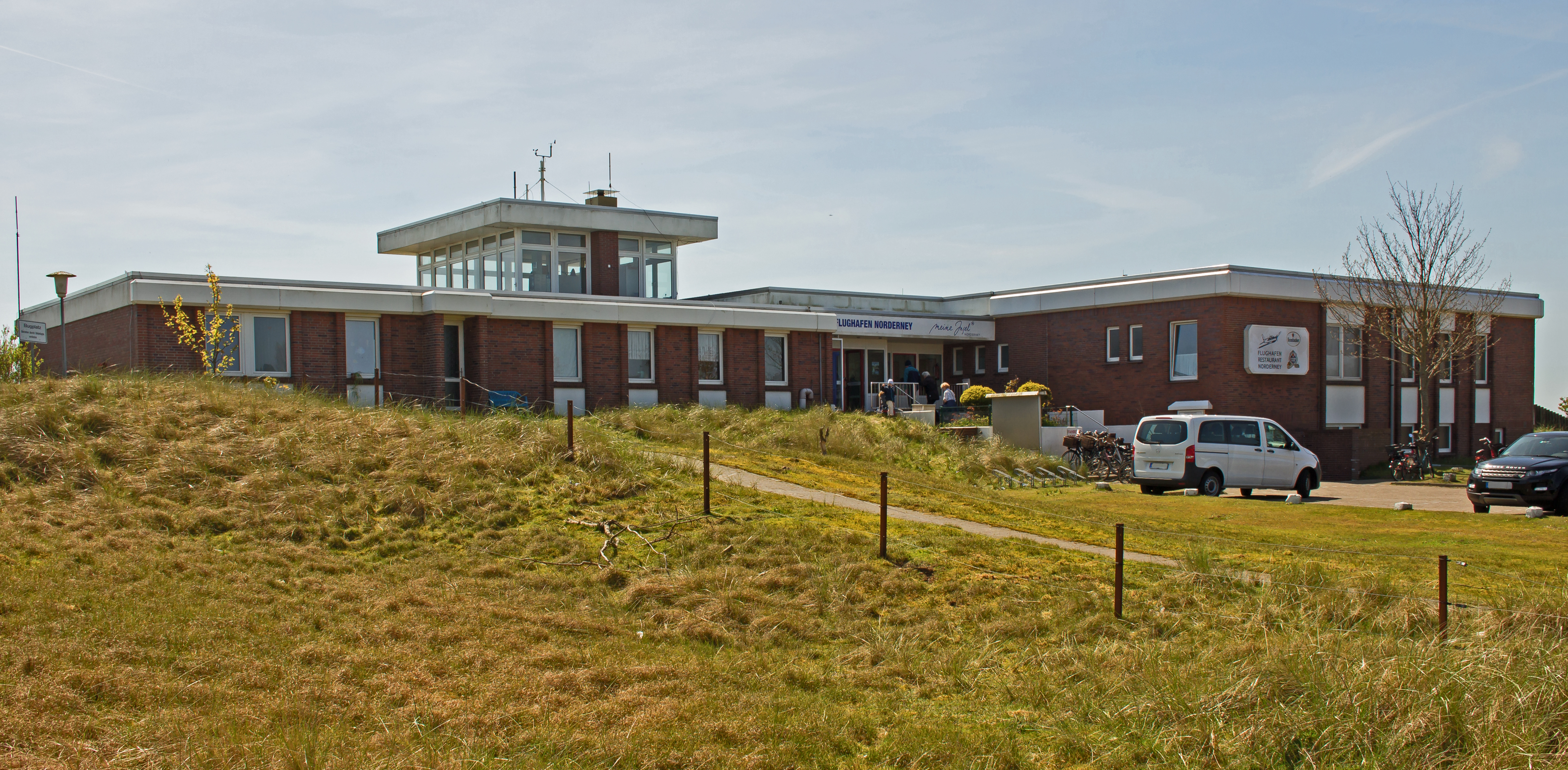 airport - Norderney, Lower Saxony, Germany